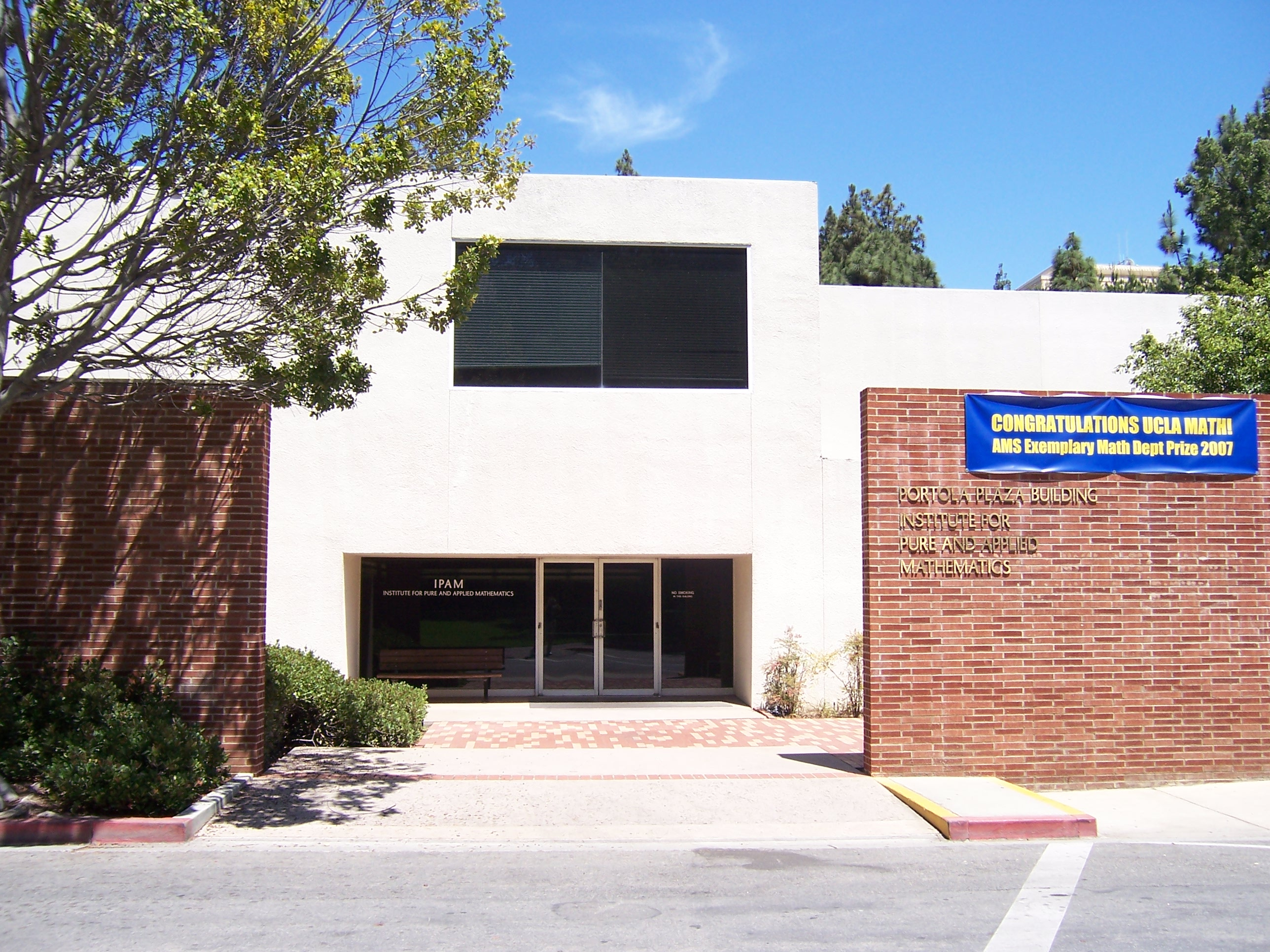 Illustration of the Institute for Pure and Applied Mathematics, UCLA